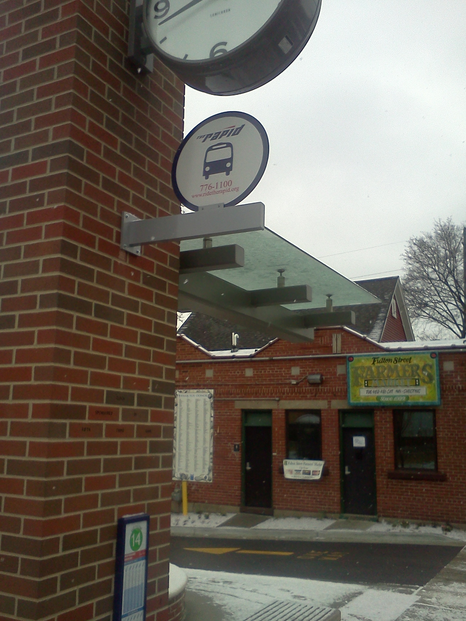 Bus stop and old market office at Fulton Street Farmers Market. The office building is now used by the Midtown Neighborhood Association.